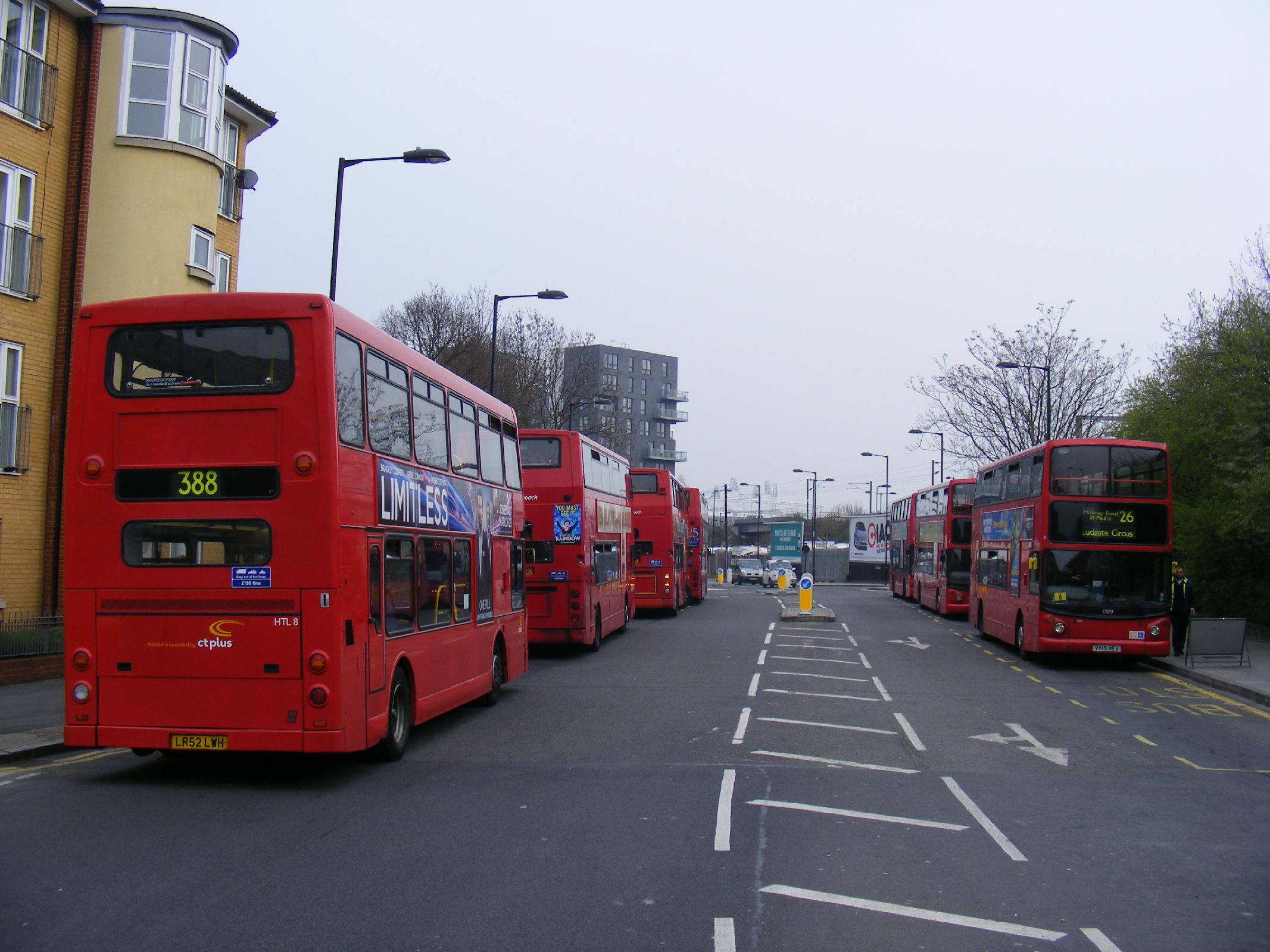 Disruption to normal running caused by a large rally in Central London. 26 and 388 routes' terminus.